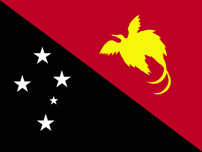 Papua New Guinea flag 300px height, unified for the national flags serie, borders removed, high compression ratio, some color or ratio corrections from